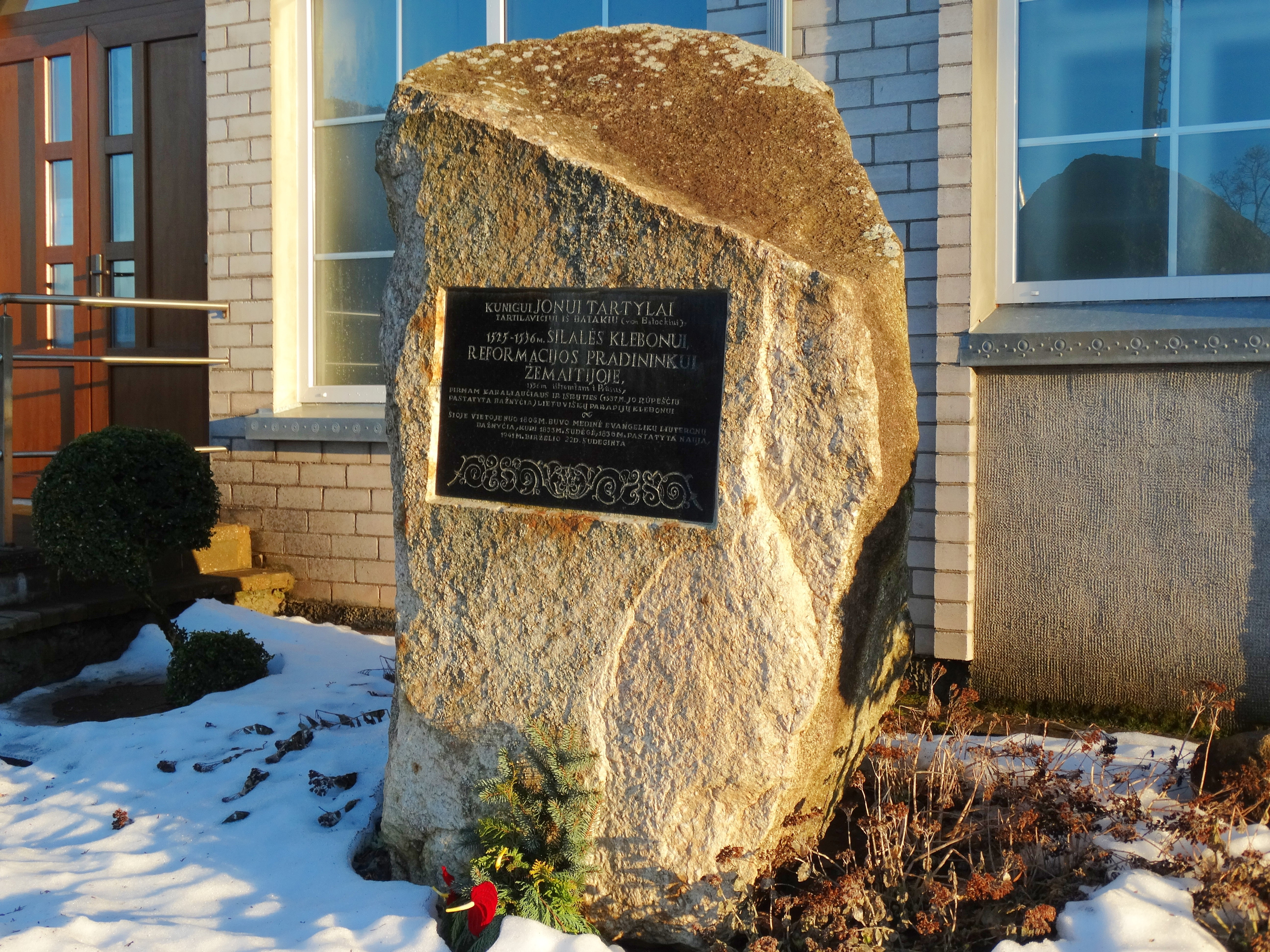 Memorial stone to Jonas Tartyla (Tartylowicz Batocki, ?–1558), Šilalė, Lithuania